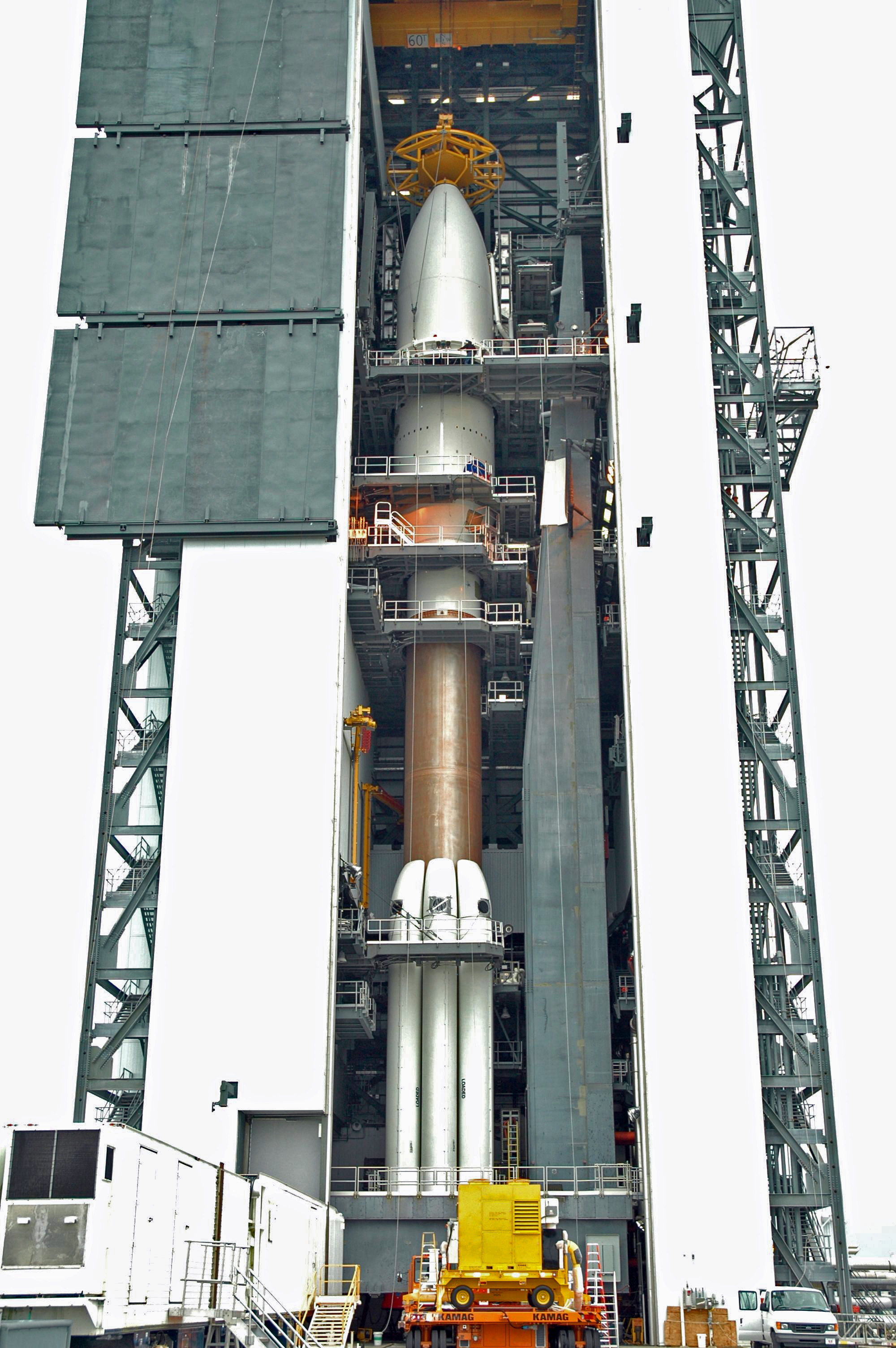 The fairing enclosing New Horizons awaits further processing upon its arrival atop a Lockheed Martin Atlas V launch vehicle in the Vertical Integration Facility at Complex 41 on Cape Canaveral Air Force Station. New Horizons carries seven scientific instruments that will characterize the global geology and geomorphology of Pluto and its moon Charon, map their surface compositions and temperatures, and examine Pluto's complex atmosphere. After that, flybys of Kuiper Belt objects from even farther in the solar system may be undertaken in an extended mission. New Horizons is the first mission in NASA's New Frontiers program of medium-class planetary missions. The spacecraft, designed for NASA by the Johns Hopkins University Applied Physics Laboratory in Laurel, Md., will launch aboard a Lockheed Martin Atlas V rocket and fly by Pluto and Charon as early as summer 2015.